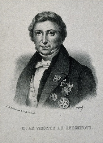 vicomte Joseph Romain Louis de Kerckhove [Kirckhoff]